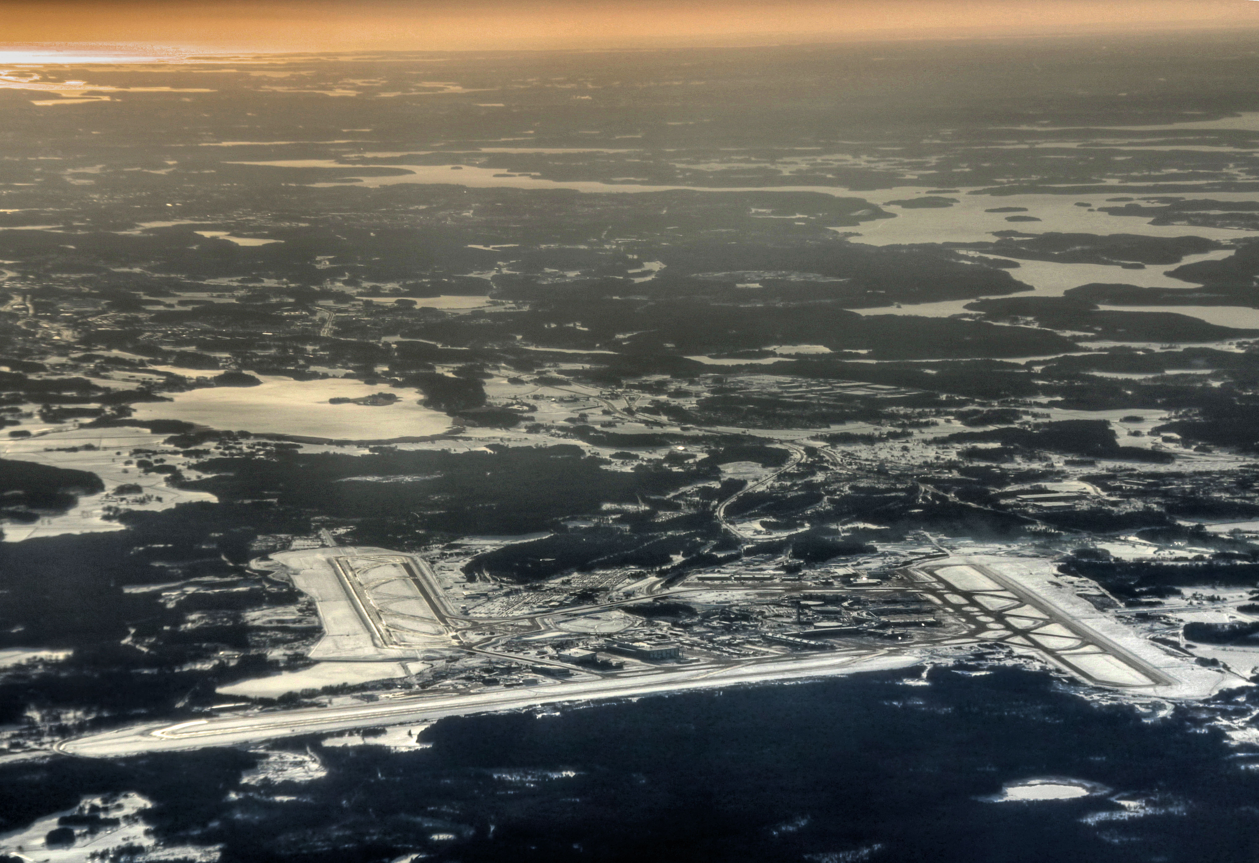 Arlanda Airport, northern approach